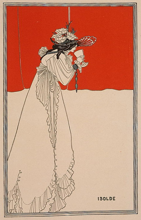 "Isolde" by Aubrey Beardsley. Illustration in "Pan", Berlin, 1899-1900, v. 5, between p. 260 and p. 261.